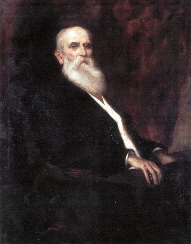 Portrait of Friedrich Engelhorn (1821-1902)